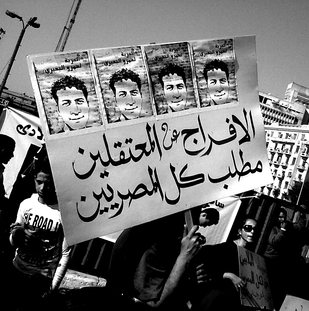 Photo of Amr El beheiry. His story